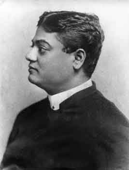 Swami Vivekananda in London 1895